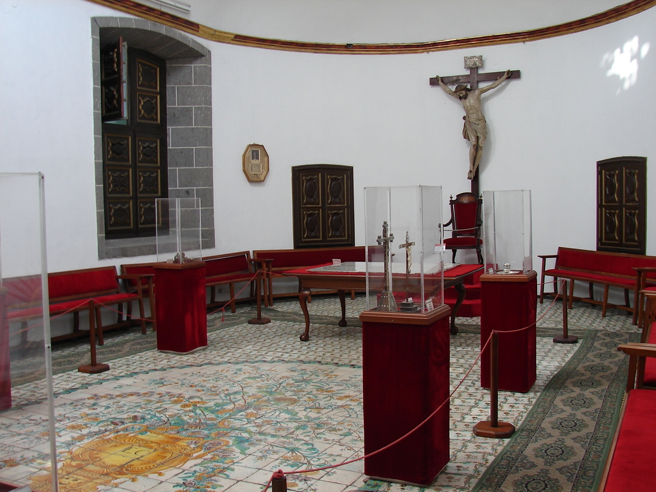 Hall museum